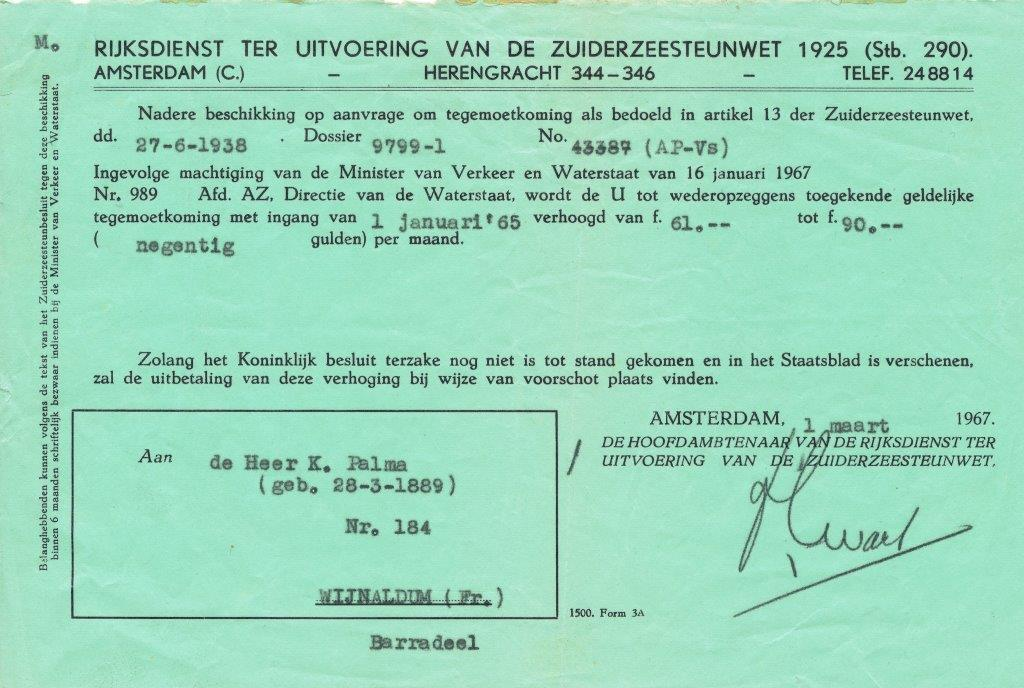 Change in payments Zuiderzee relief